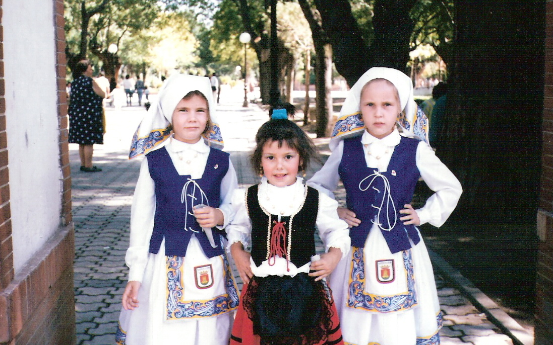 Talavera de la Reina girls in traditional costumes.